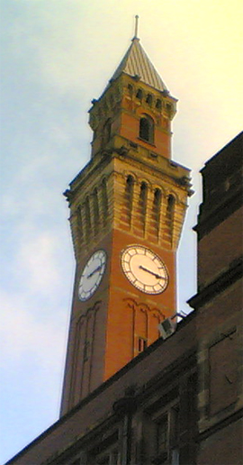 Joseph Chamberlain Memorial Clock Tower, also known as "Old Joe's", in Chancellor's Square, University of Birmingham at Edgbaston, Birmingham, England.